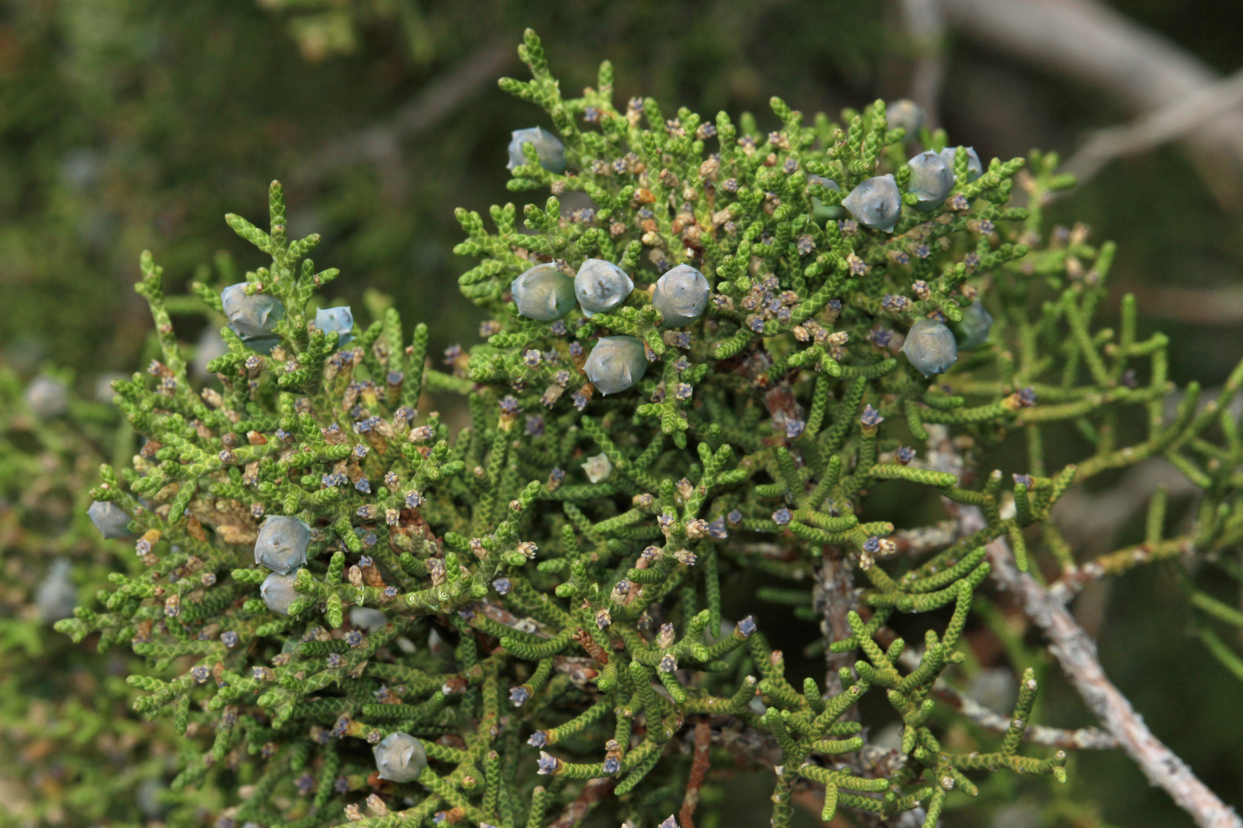 California Juniper Identification by: Linda Edwards and Vern Benhart Viewpoint location: Arthur B. Ripley Desert Woodland State Park, Lancaster, California Viewpoint elevation: 899 meter (2948 ft) Location source: Garmin GPSmap 60CSx Location Datum: WGS84